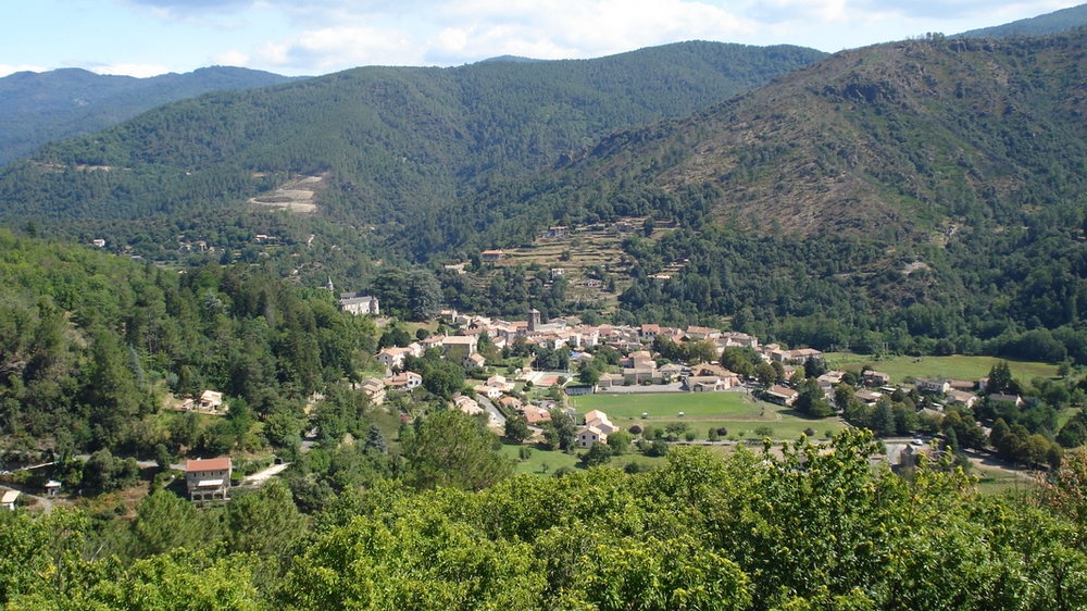 Saint-Étienne-Vallée-Française seen from the castelas (south-west)